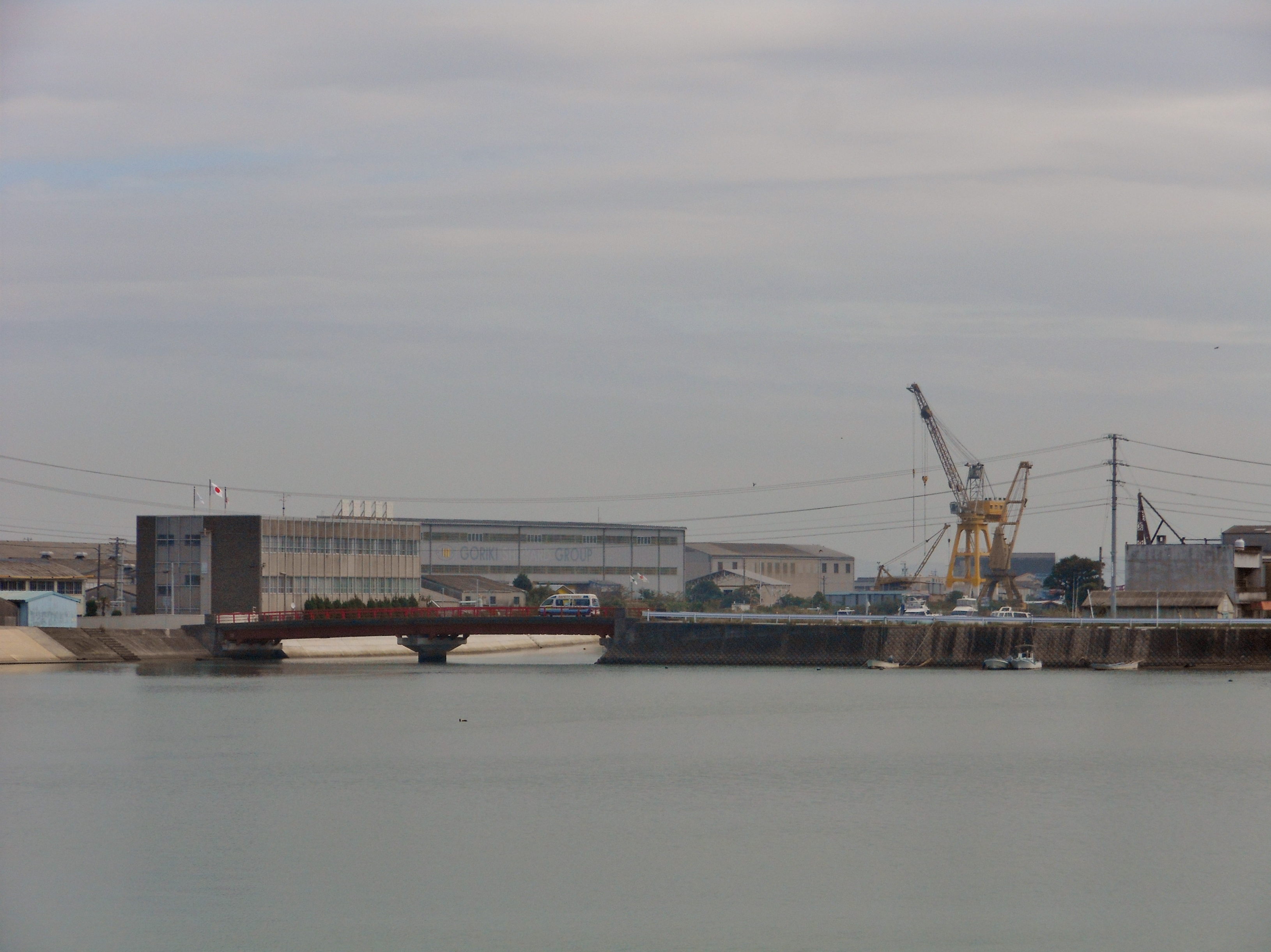 This is a shipyard in Ominato-cho, Ise, Mie, Japan.